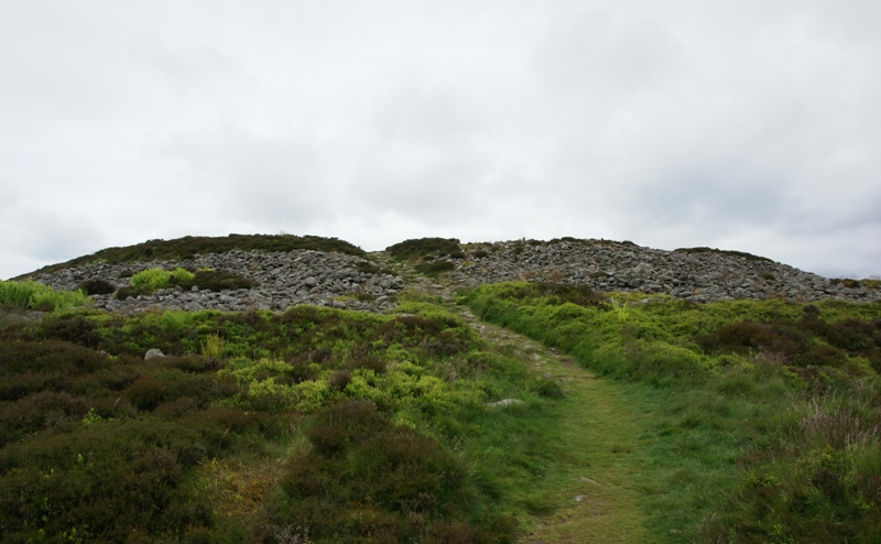 White Caterthun, Angus, Scotland.